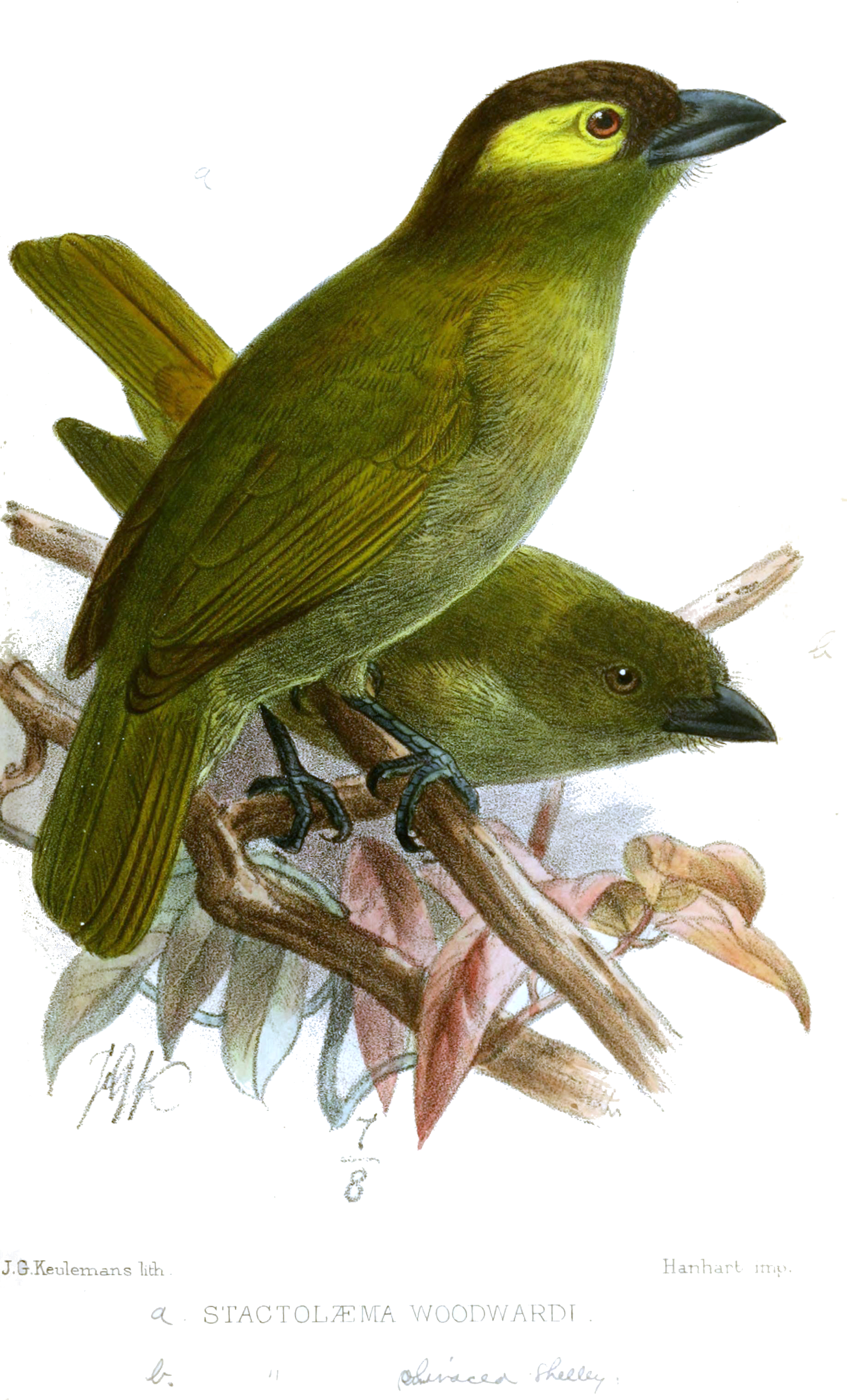 Stactolaema olivacea + S. o. woodwardi